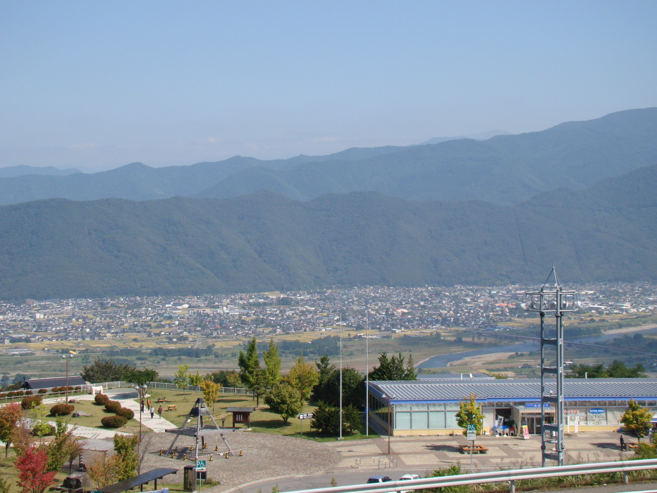 Nagano expressway Obasute service area Nagano Japan